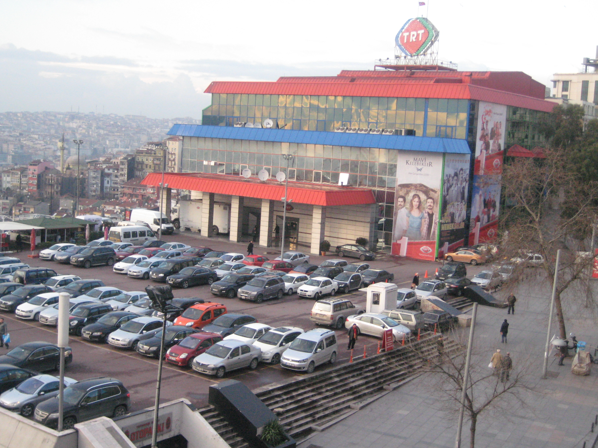 TRT (State TV) in Mesrutiyet Street, Istanbul